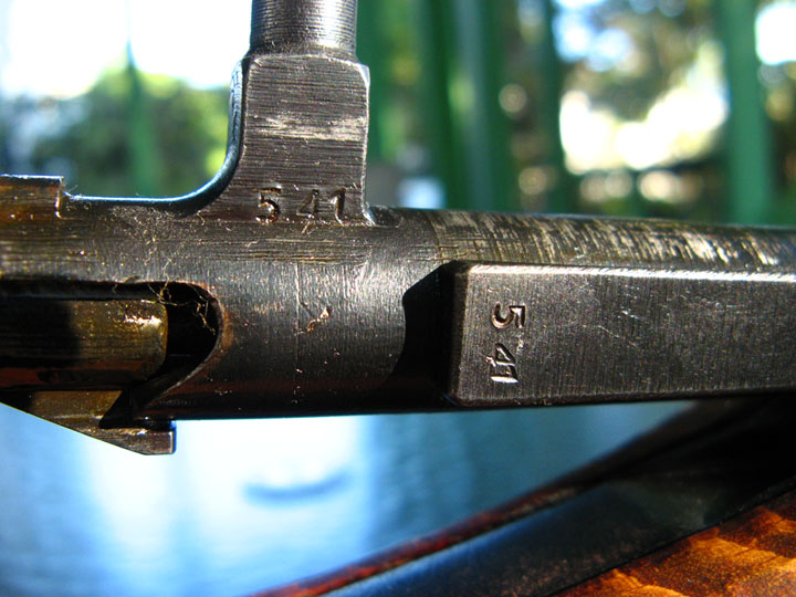 This is the bolt of the Type 99 Arisaka rifle showing matching numbers on the bolt. These are the last three numbers of the serial number, signifying an all original parts rifle.